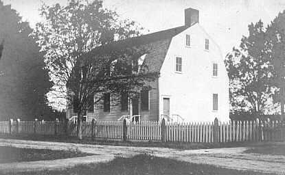 Shirley Shaker Meetinghouse, Shirley, MA, at its original site in c. 1910